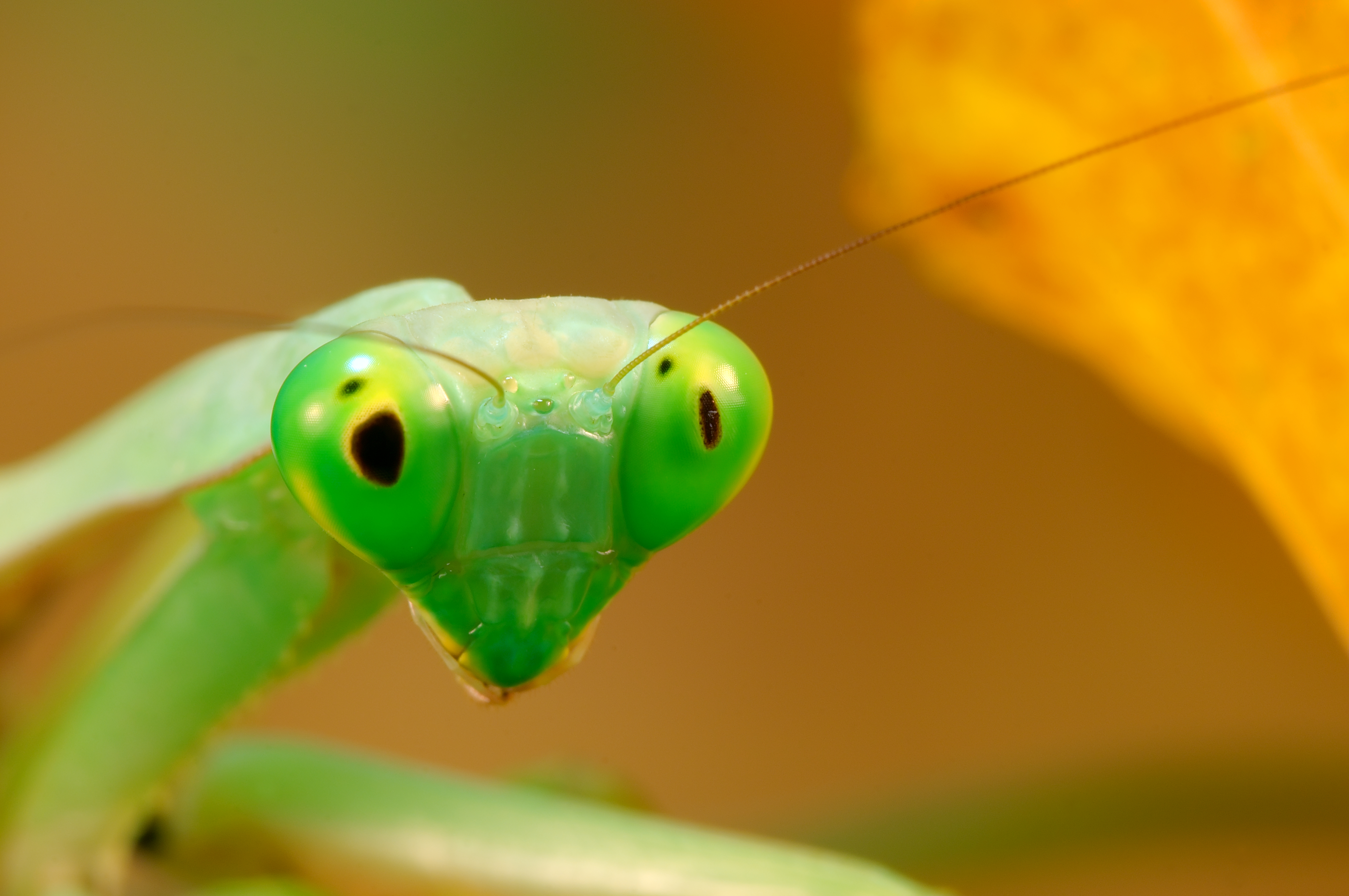 Rhombodera basalis